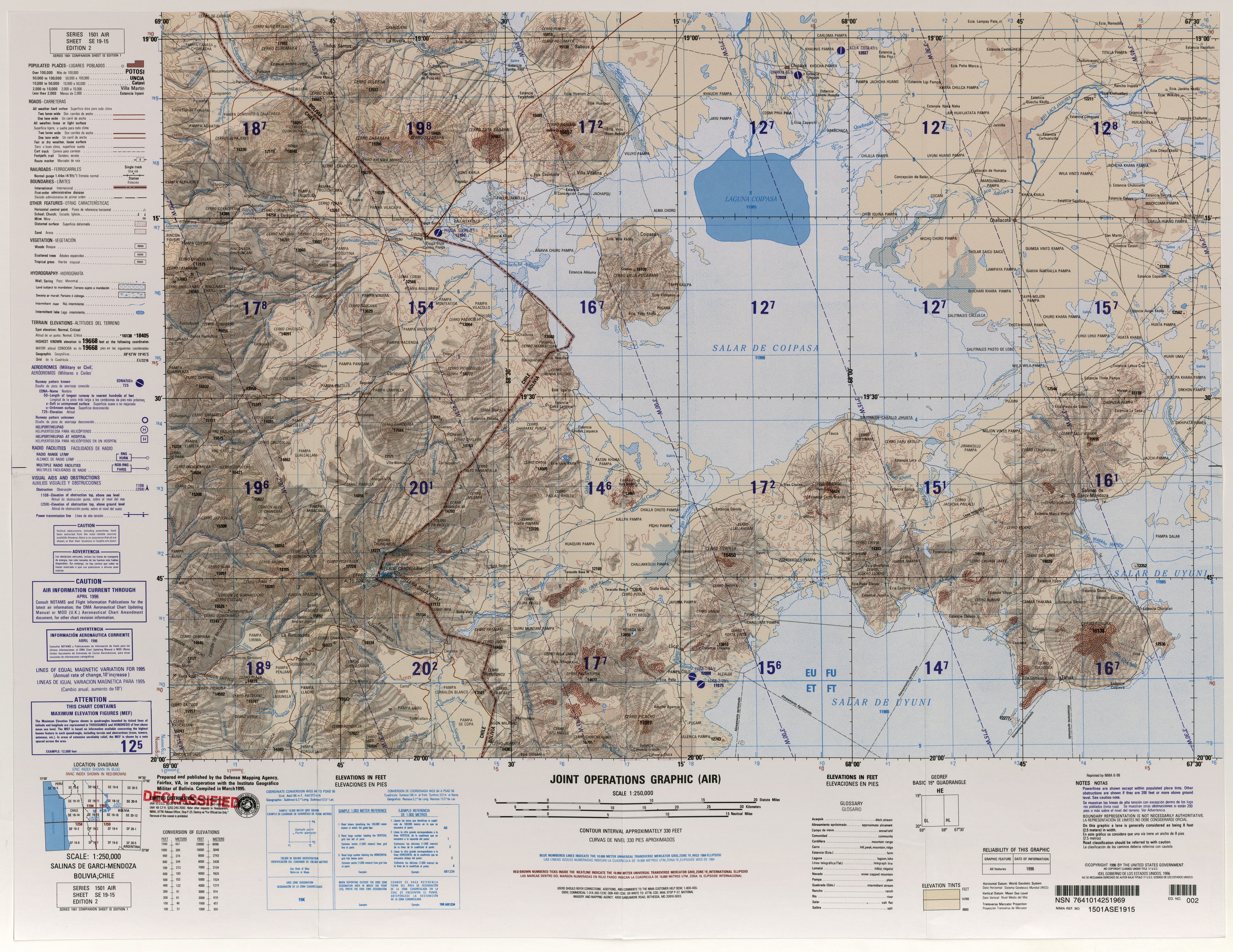 Colchane, Isluga, Salar de Coipasa